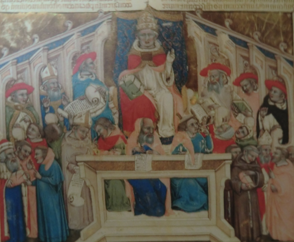 1st Council of Lyon 1245